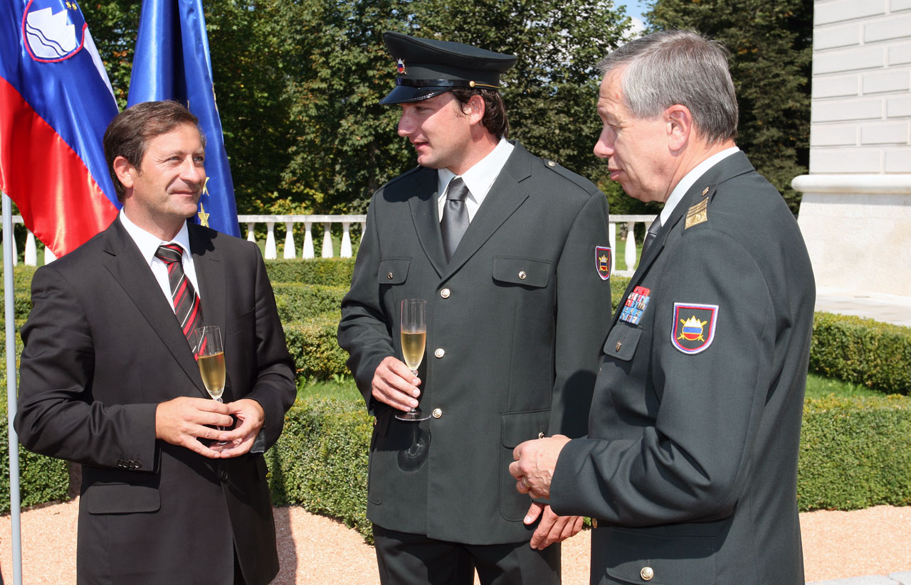 Karl Erjavec, Primož Kozmus and Albin Gutman